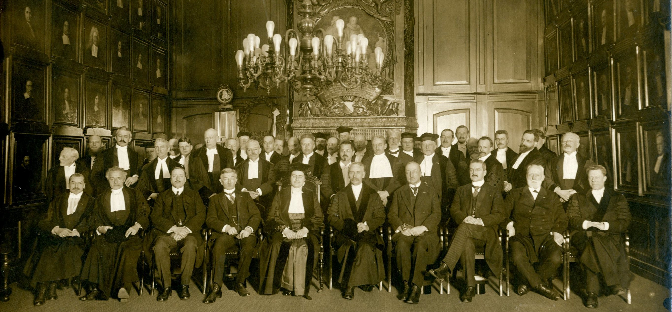 Faculty of Utrecht University, at the oration of Prof. Johanna Westerdijk, 10 Febr. 1917. Front row, from left to right: Willem Molengraaff, Pieter van Romburgh, Alex graaf van Lijnden van Sandenburg, Alexander Frederik baron van Lijnden, Johanna Westerdijk, rector Pieter Helbert Damsté, Arthur Eduward Joseph baron van Voorst tot Voorst, Joachimus Pieter Fockema Andreae, Hendrik Wefers Bettink, Hendrik Zwaardemaker. Standing, left to right: Martin Theodoor Houtsma, Jan Rudolph Slotemaker de Bruine, Arie Noordtzij, David Simons, Johann Frantzen, Hermann Jacques Jordan, Bonifacius Christiaan de Savornin Lohman, Herman Snellen Jr., Ewoud van Everdingen, Jan de Louter, Friedrich Went, Ernst Cohen, Bernard Jan Hendrik Ovink, Hugo Frederik Nierstrasz, Jan Frederik Niermeijer, Willem Cornelis de Graaff, Herman Theodorus Obbink, Albert Antonie Nijland, Willem Caland, Johannes Wilhelm Pont, Jan de Vries, Willem Kapteyn, Hugo Visscher, Christiaan Eijkman, Johan d' Aulnis de Bourouill, Willem Vogelsang, Hugo Rudolph Kruyt, Willem Julius, Arnoldus Johannes Petrus van den Broek, August Adriaan Pulle, Hendrik Bolkestein, onherkenbaar persoon, Charles Henri Hubert Spronck.